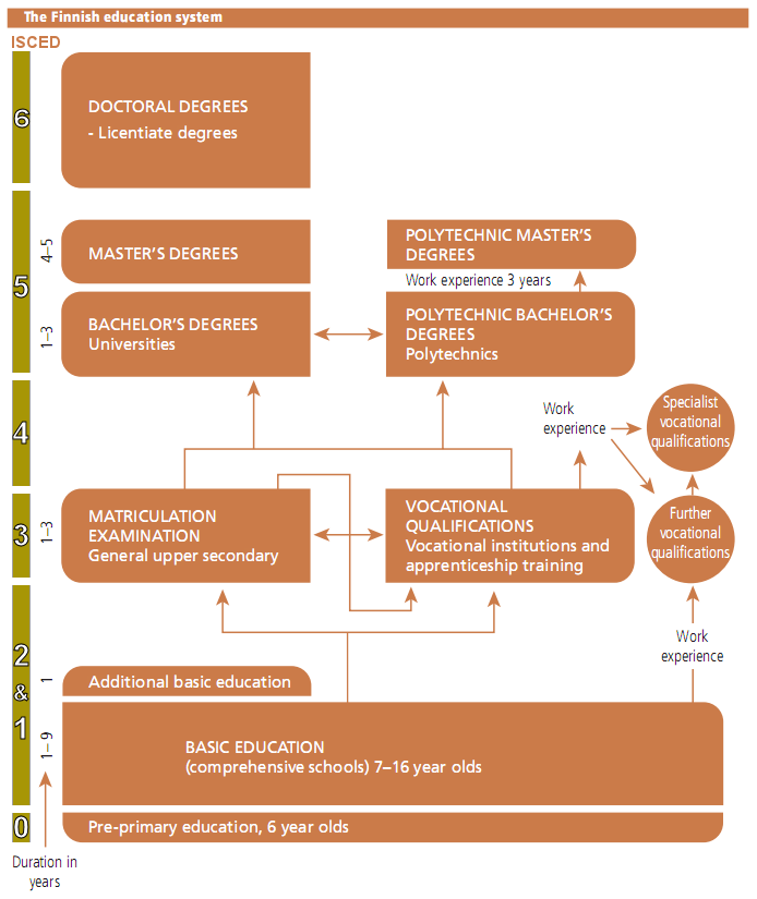 Finnish Education System Chart